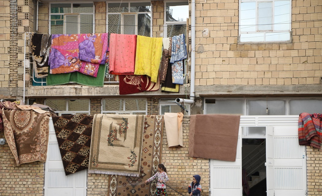 Khane-tekani of Nowruz 2018, Shahr-e Kord - 11 March 2018 (or 7 March)